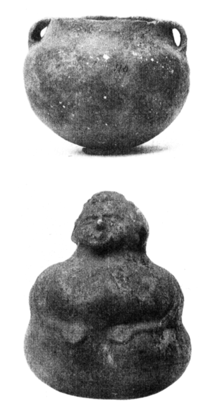 Two examples of pottery found in the 1920 Fewkes Group excavation, in Brentwood, Tennessee.